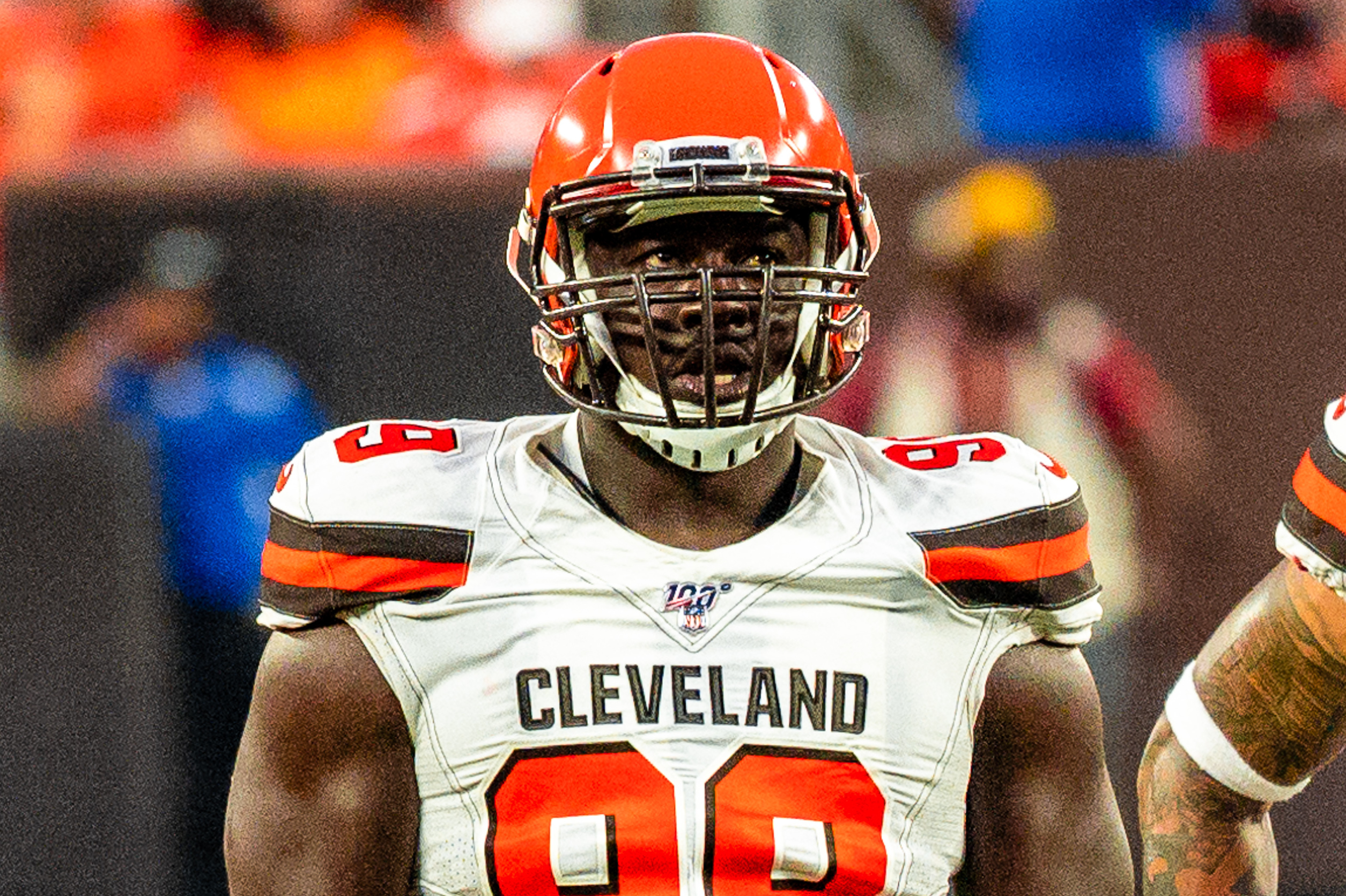 Cleveland Browns defensive tackle, Devaroe Lawrence, during a preseason game against the Washington Redskins on August 8, 2019.